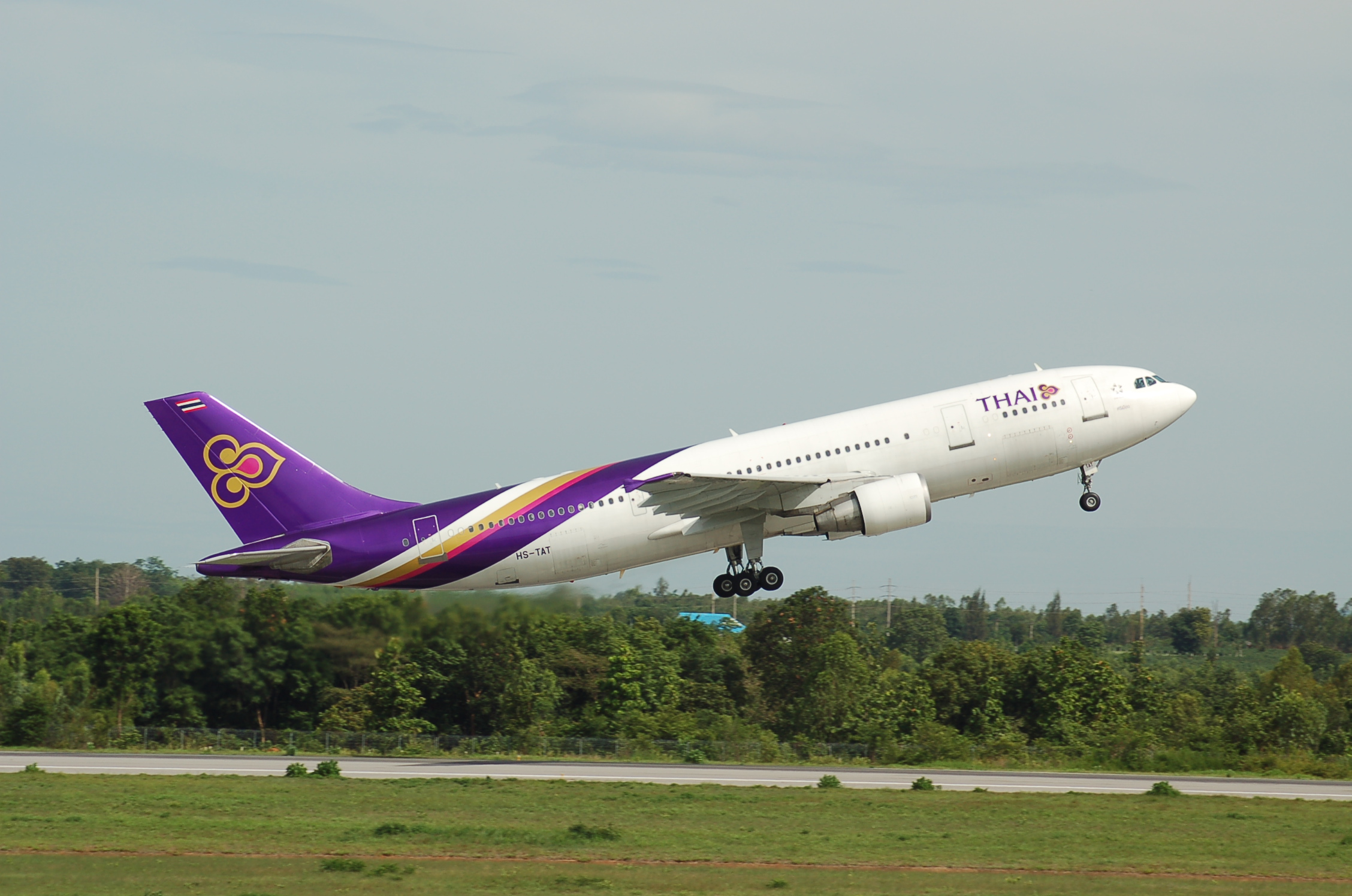 Airbus A300/6 of Thai Airways International departing rwy.03 at Khon Kaen,Thailand,10/06/13.